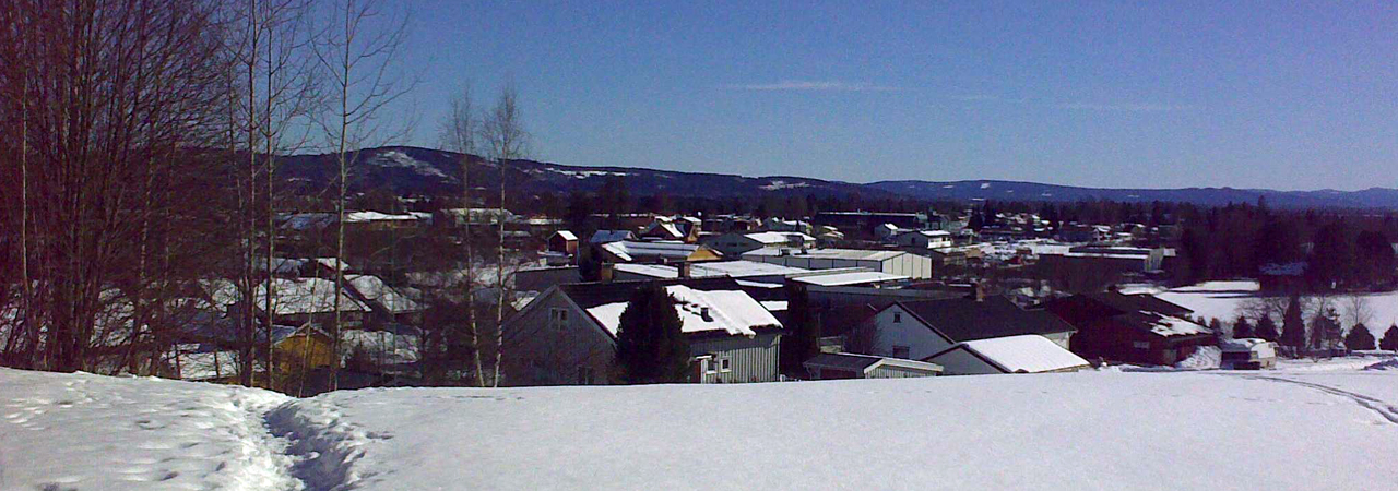 Panorama of Flisa in the municipality of Åsnes, a small town in south-eastern Norway with a population of about 3,000.